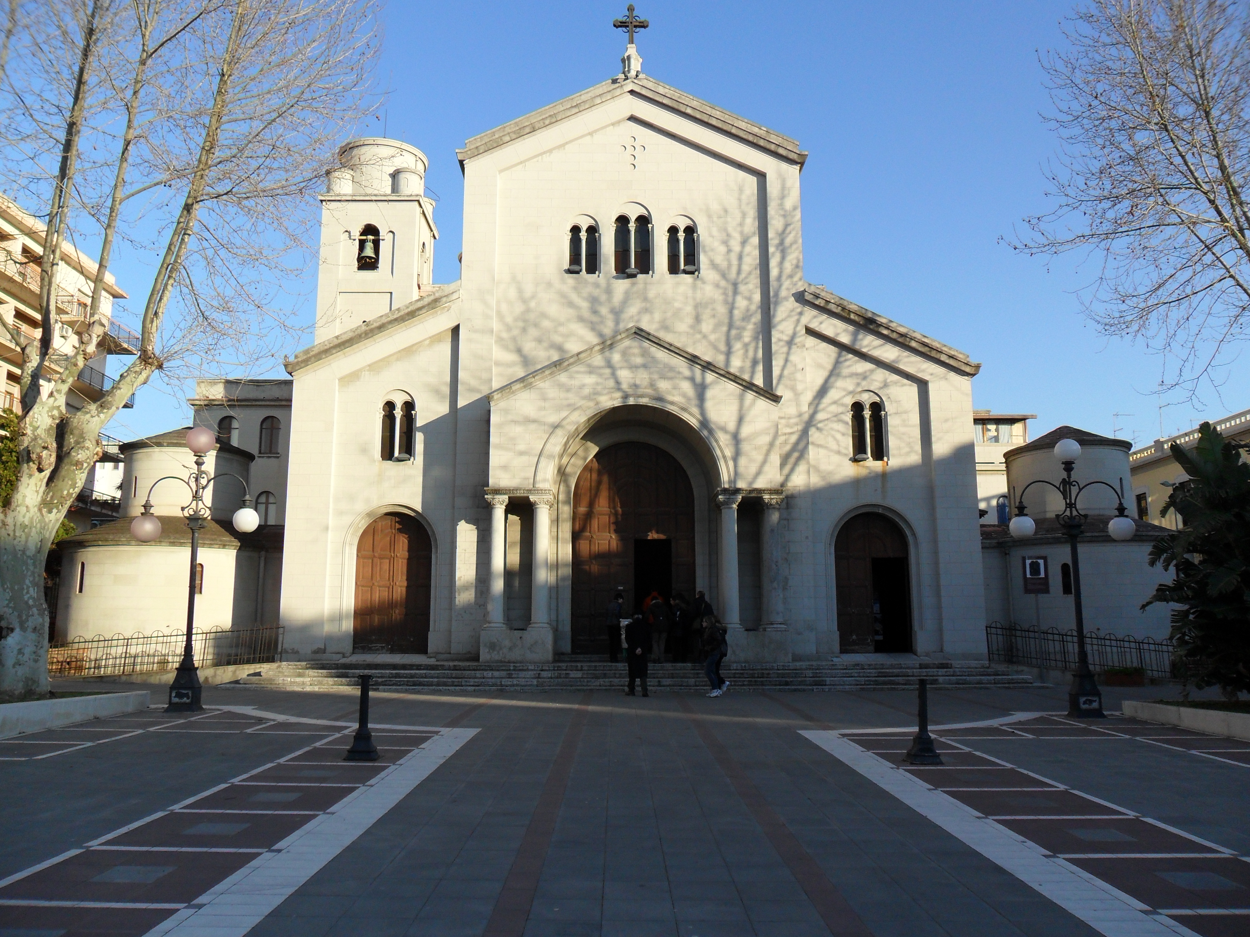 Church of St.Augustine